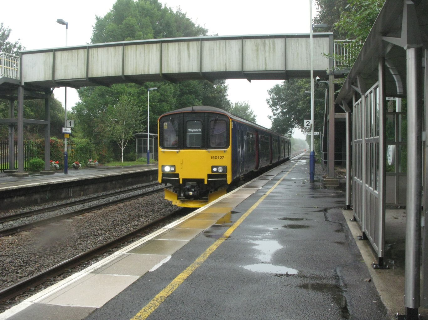 A 'Heart of Wessex'; service to Weymouth arrives at a damp Bruton station in Somerset. The train is formed by First Great Western's two-car unit 150127.